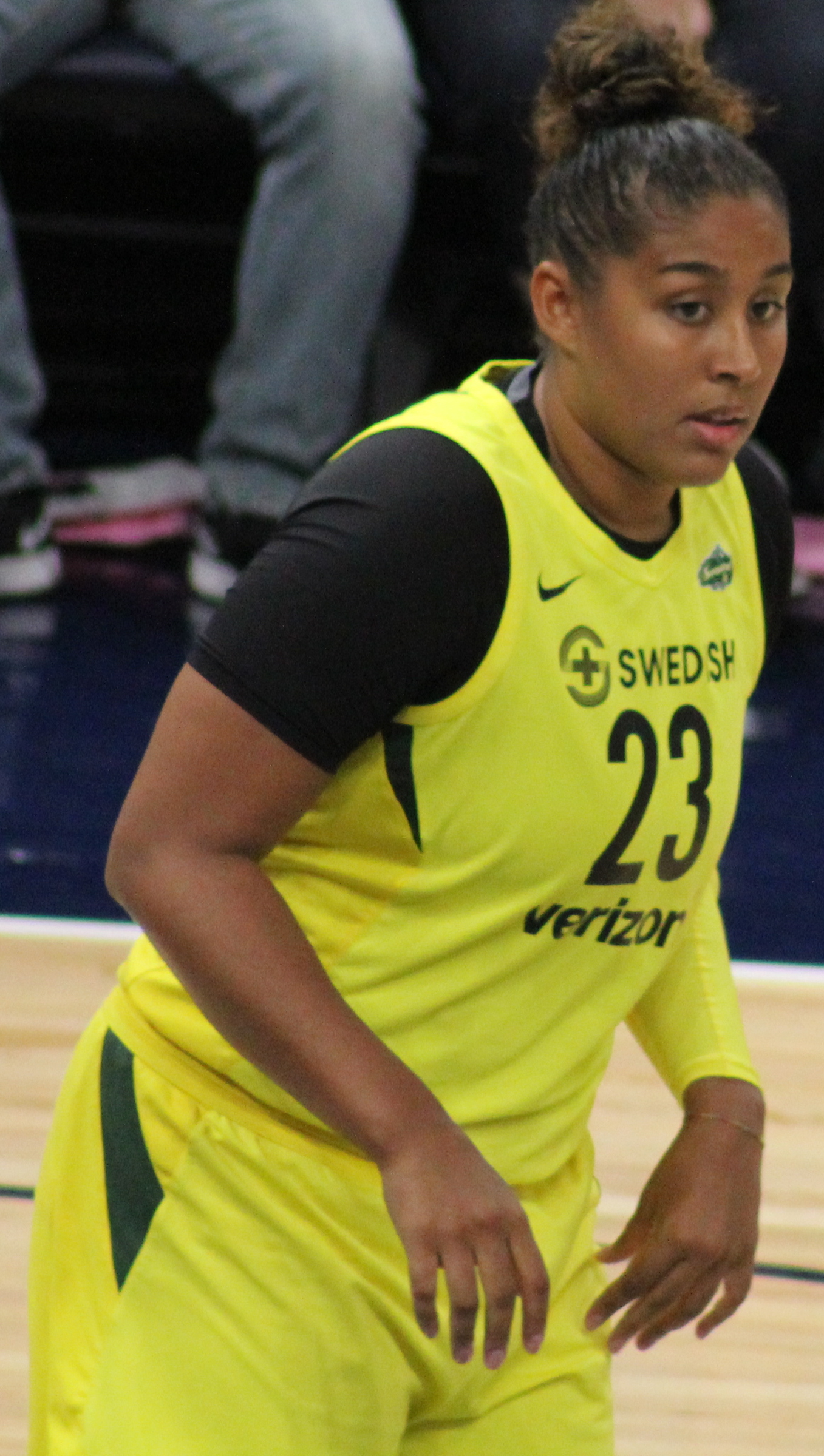 Kaleena Mosqueda-Lewis of the Seattle Storm